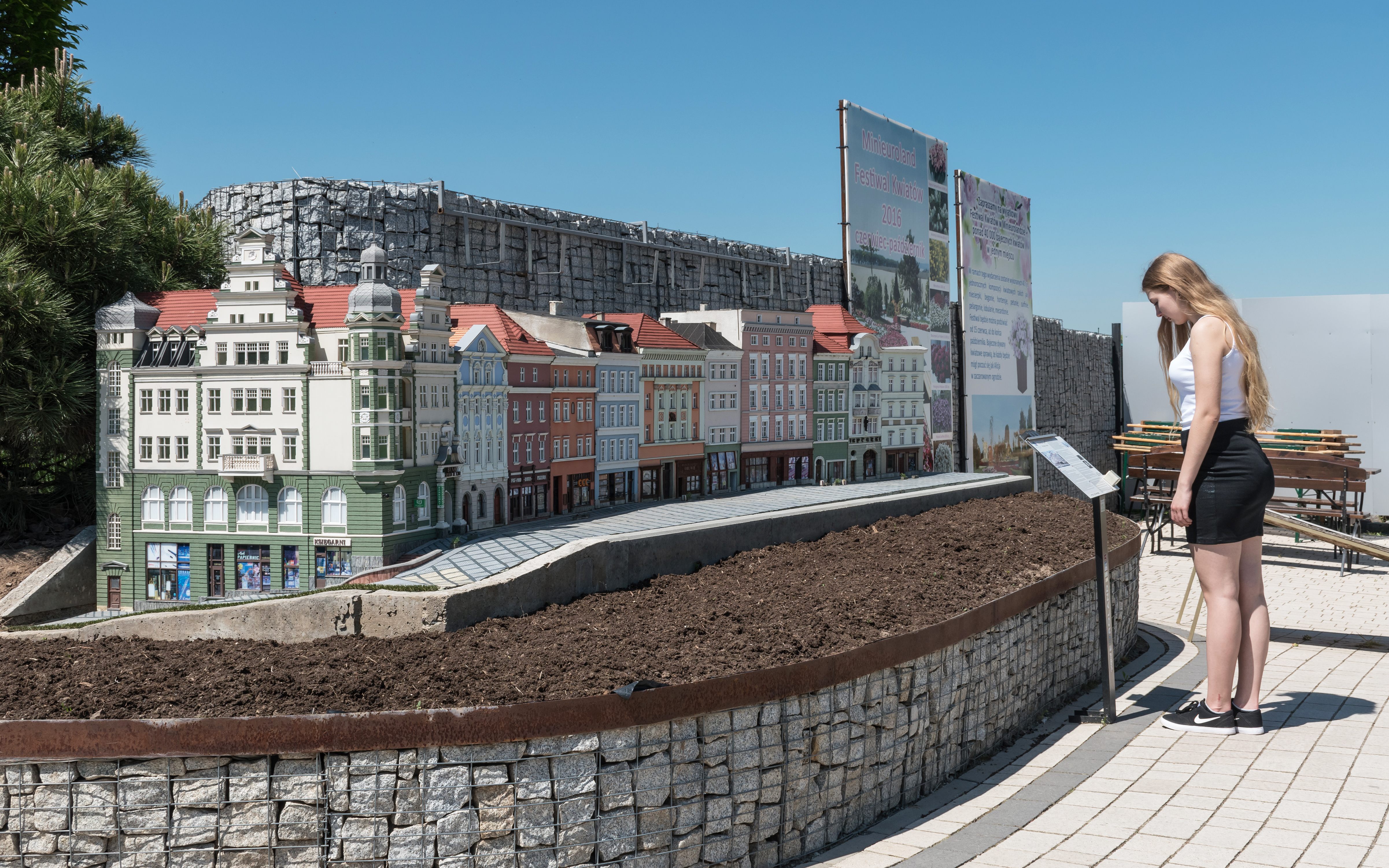 Minieuroland in Kłodzko, market square in Kłodzko